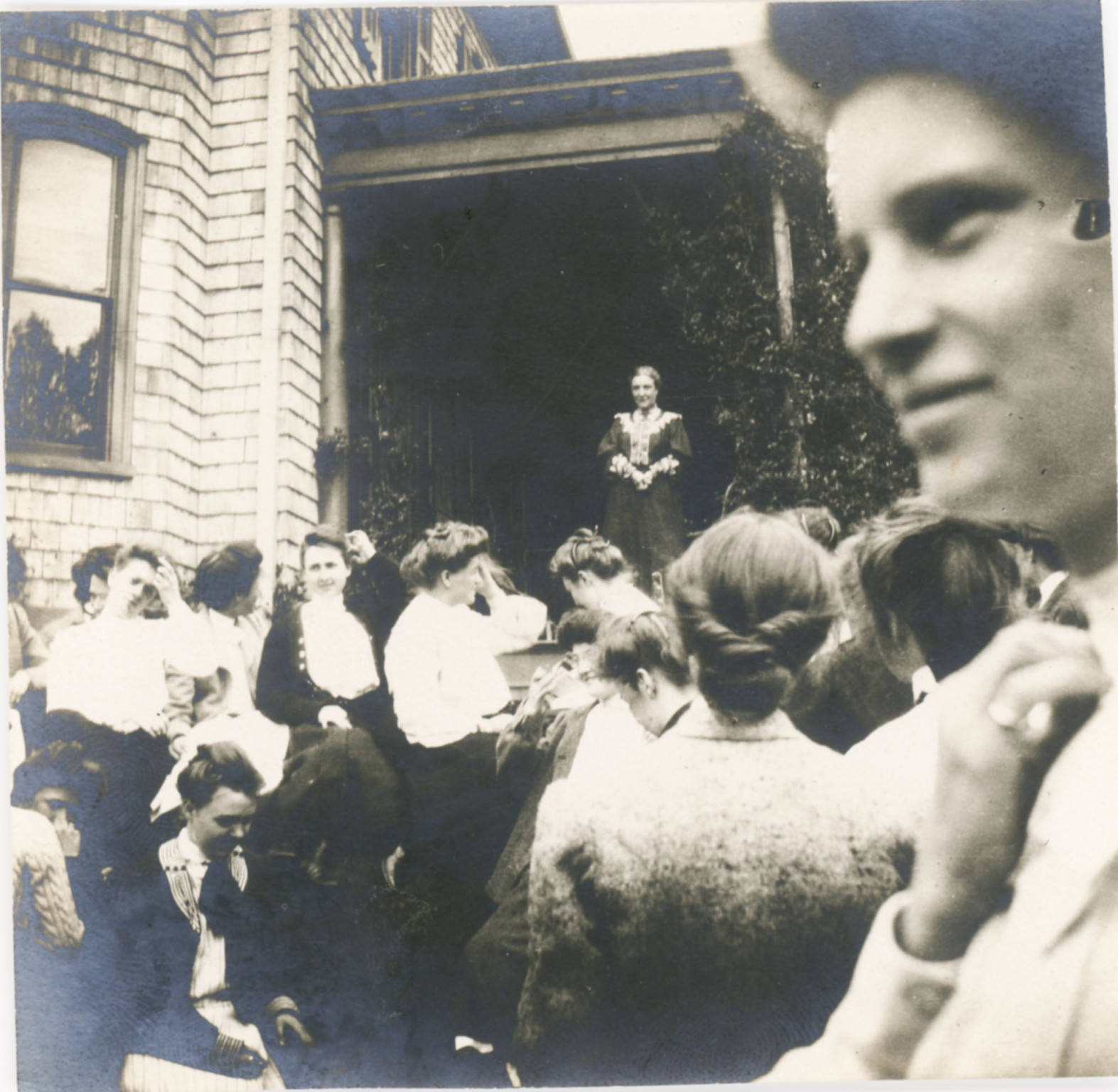 Photo of M. Carey Thomas standing on the deanery porch and addressing students.